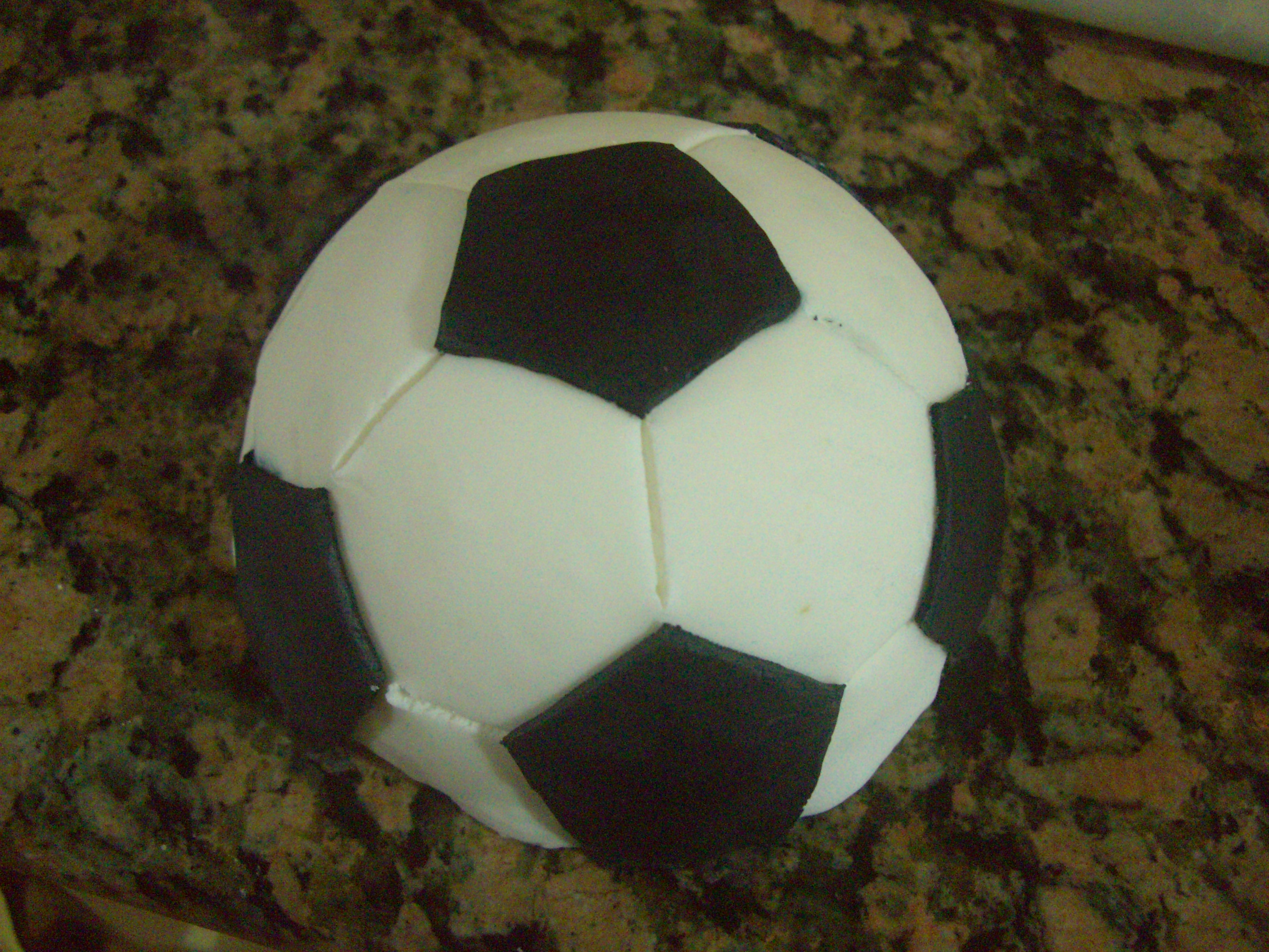 One football ball, the best decoration for a cake